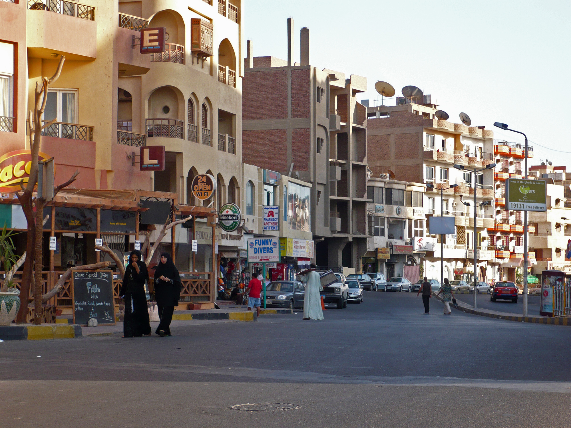 Street in Hurghada.